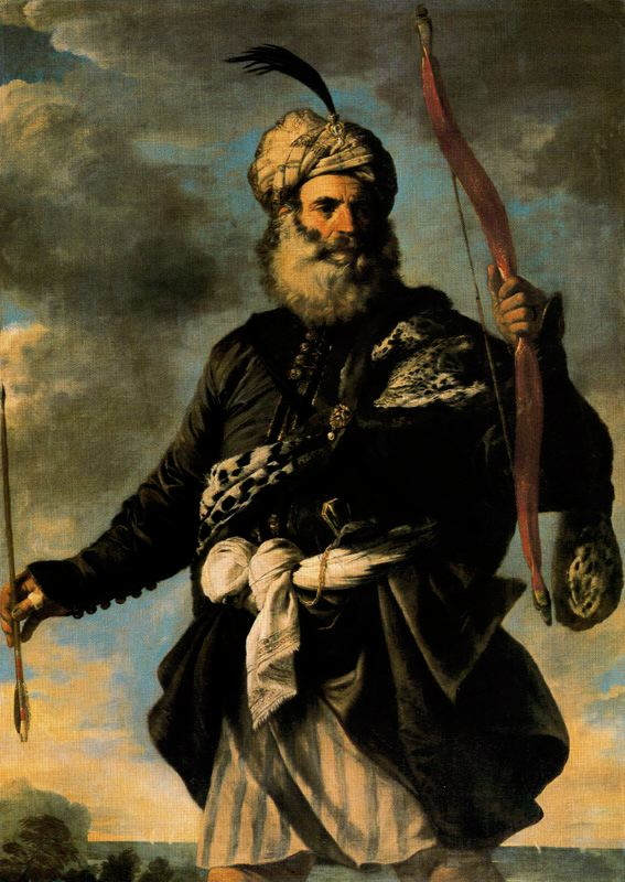 description on the museum's website